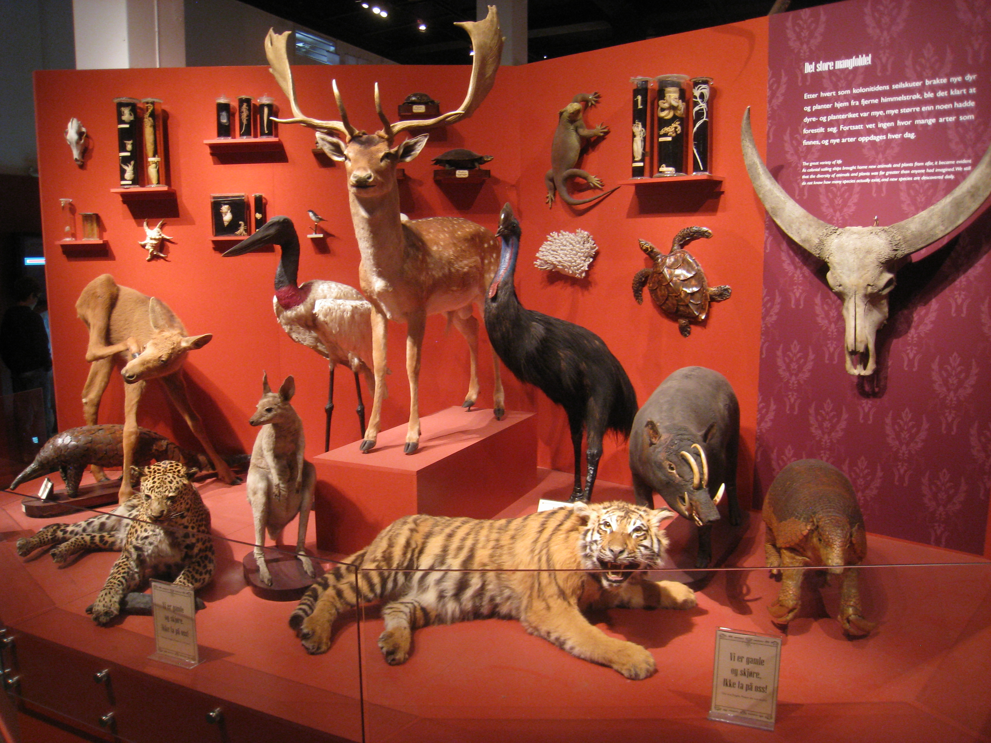 Oslo Zoological Museum (Naturhistorisk Museum), Oslo, Norway.